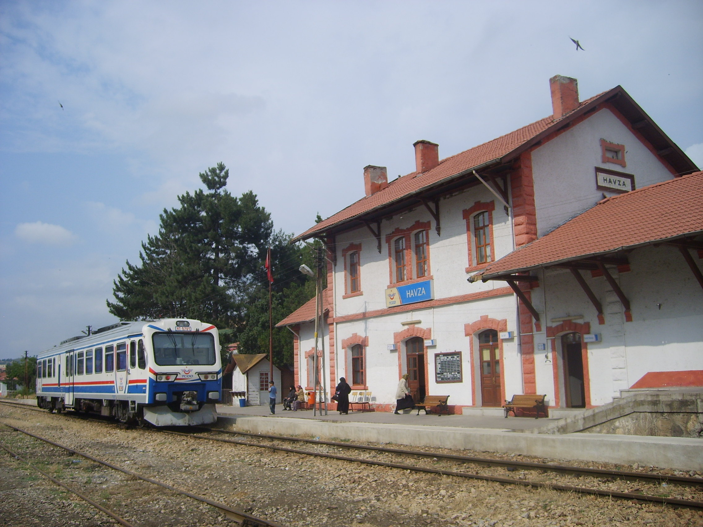 Train station in Havza, Turkey, with a commuter train from/to Amasya.